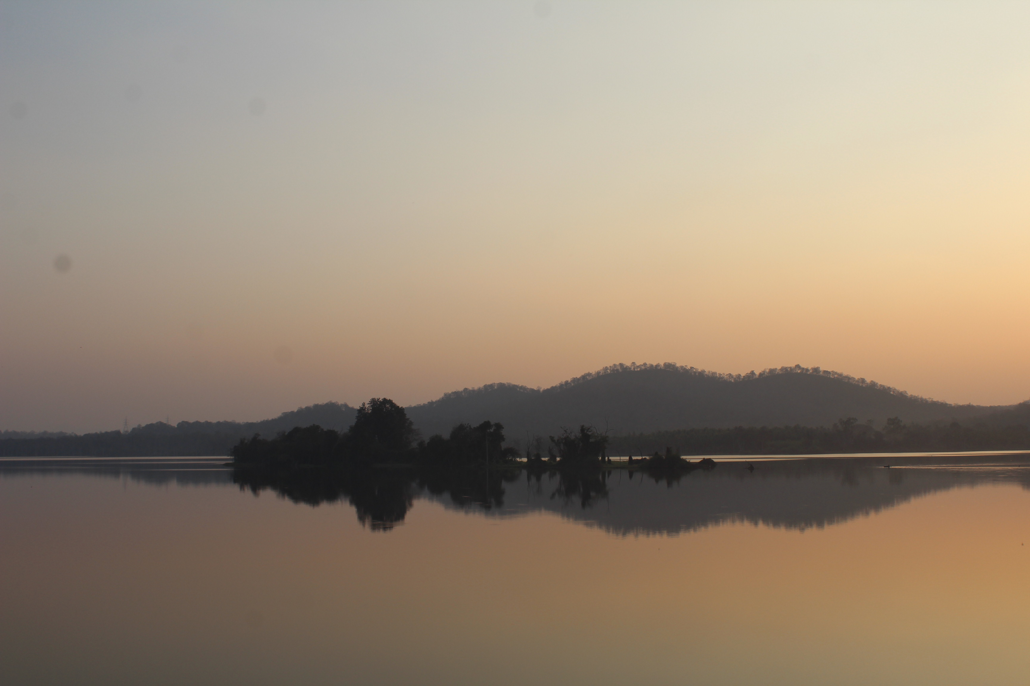 This image was taken from Gajanur dam